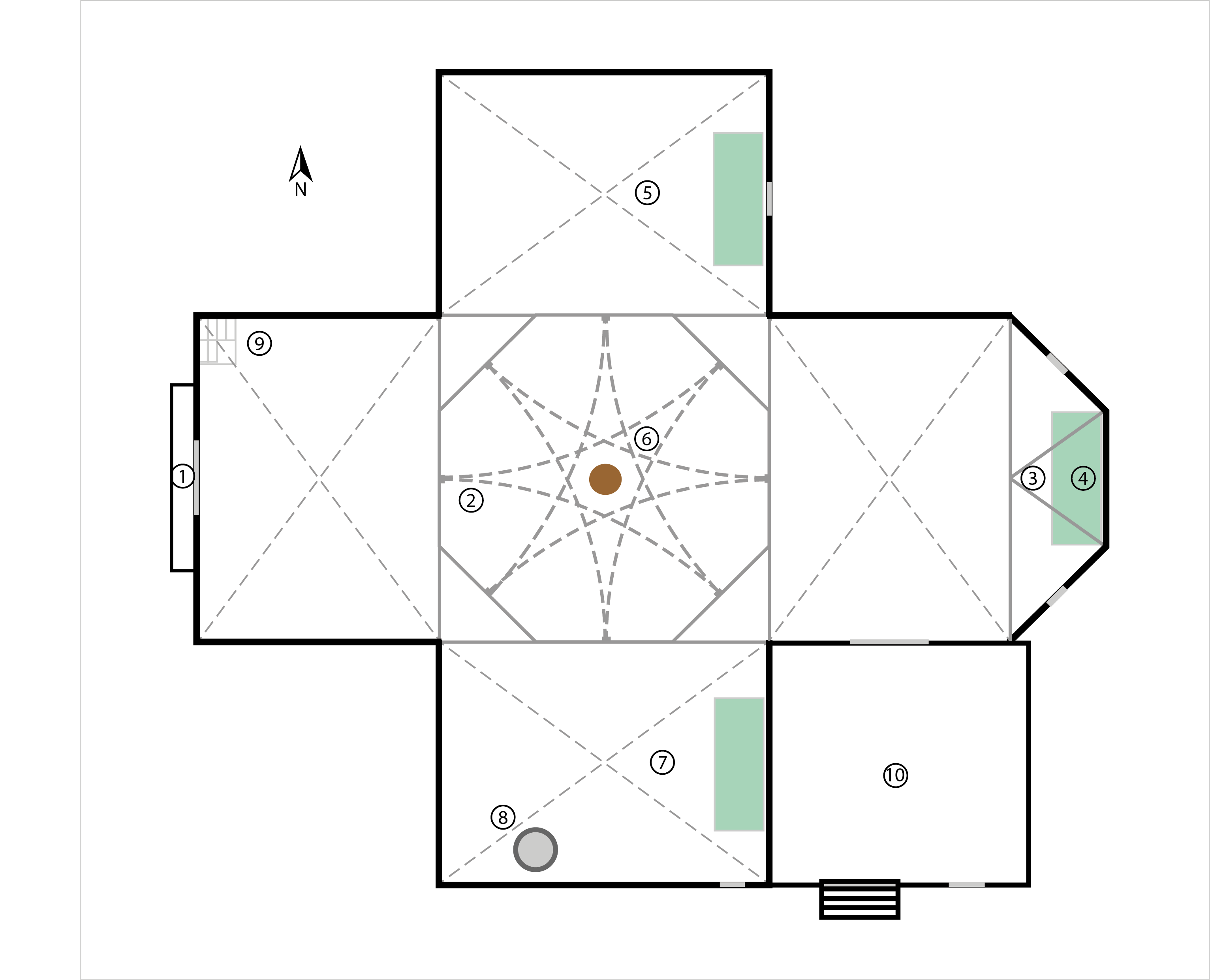 Simplified plan for Church of L'Hôpital-Saint-Blaise.